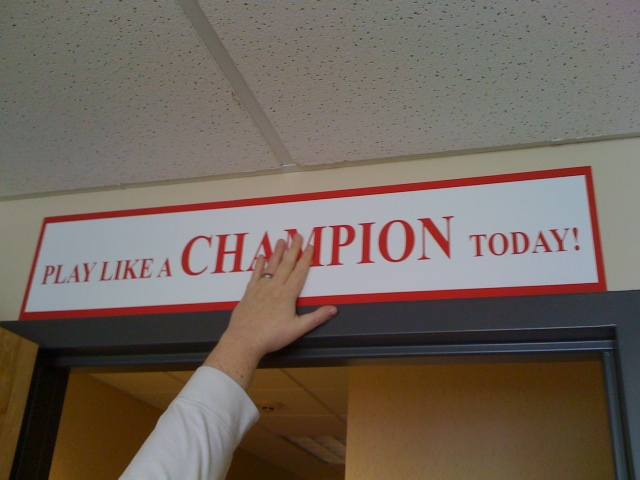 OU picture